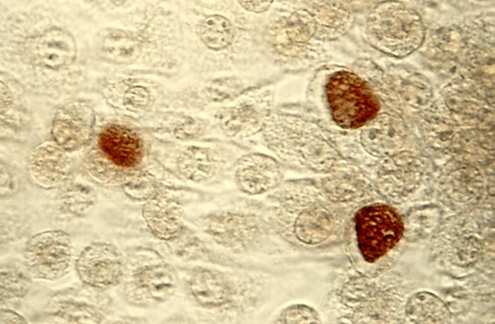 Chlamydia trachomatis inclusion bodies (brown) in a McCoy cell culture Source: CDC-PHIL id#6427 (no deep link possible anymore - search for "Chlamydia trachomatis") Original description: This McCoy cell monolayer micrograph reveals a number of intracellular C. trachomatis inclusion bodies; Magnified 200X. The intracellular inclusion body represents the replication phase of the Chlamydia spp. organisms, whereupon, the reorganized reticulate body (RB) multiplies through binary fission into 100-500 new RBs, which mature into elementary bodies (EB). Content Providers(s): CDC/ Dr. E. Arum, Dr. N. Jacobs Creation Date: 1975 Copyright Restrictions: None - This image is in the public domain and thus free of any copyright restrictions. As a matter of courtesy we request that the content provider be credited and notified in any public or private usage of this image. 02:28, 4. Mär 2005 Marcus007 700 x 459 (54770 Byte)